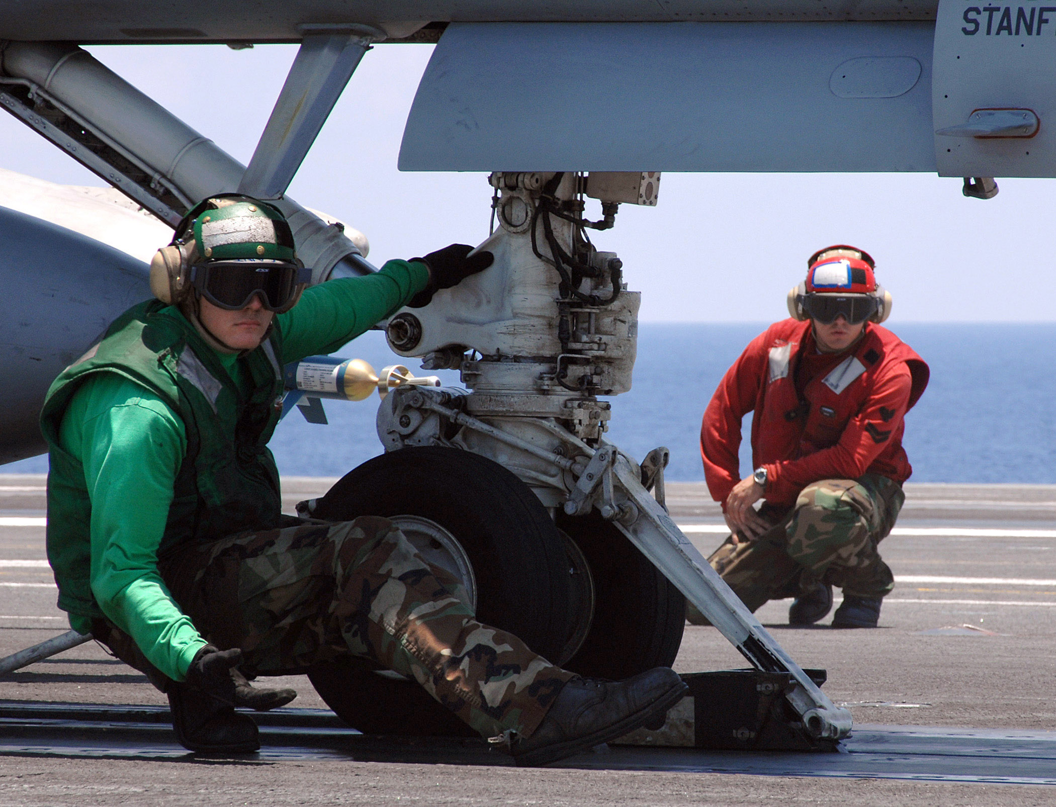 ATLANTIC OCEAN (July 9, 2007) - A final checker waits for a signal before giving the thumbs up to launch an F/A-18 aircraft from Nimitz-class aircraft carrier USS Harry S. Truman (CVN 75). Truman is underway in the Atlantic Ocean participating in the Composite Training Unit Exercise (COMTUEX) in preparation for deployment to the Persian Gulf. U.S. Navy photo by